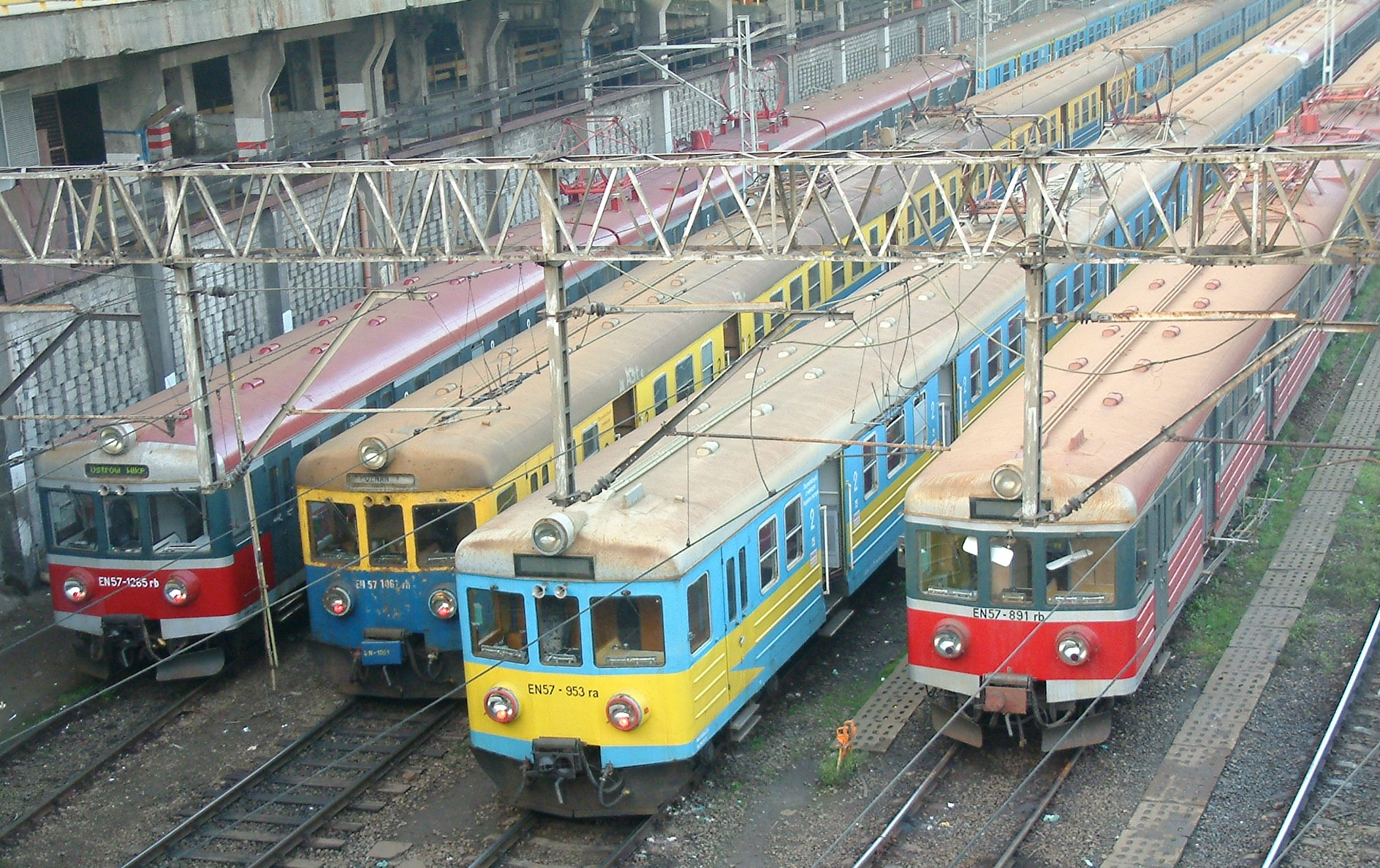 EMU EN57 in Poznań. From left to right: #1265, #1061, #953, #891